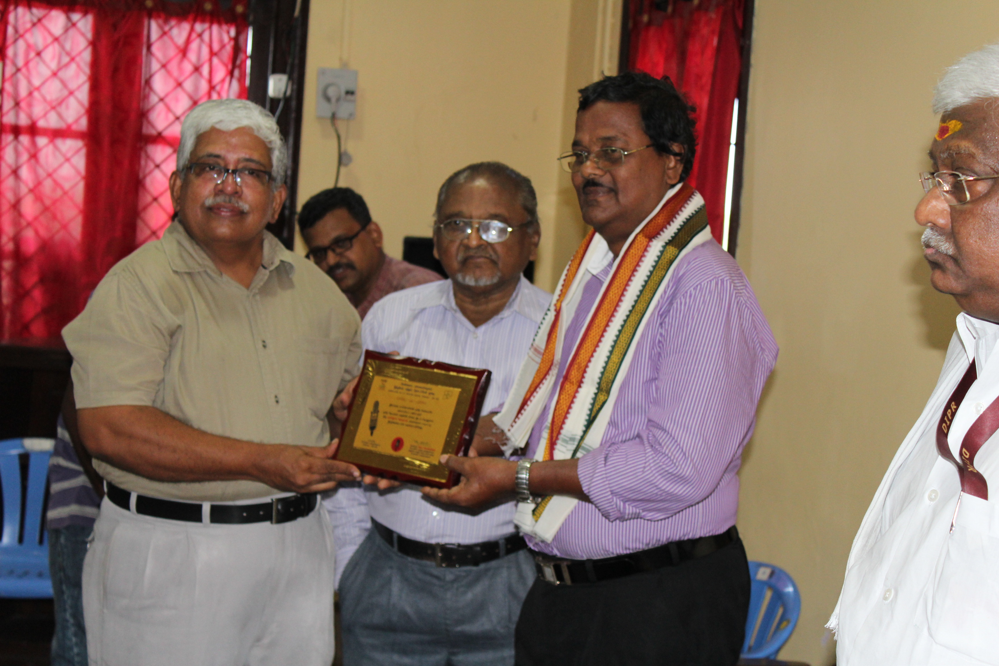 Thambiaiyah Thevathas, Sri Lankan broadcaster and writer was honoured with a memento by Prof. K. Raveendran, Head of the Department of Journalism and Communication, Madras University during a seminar held in the department's auditorium